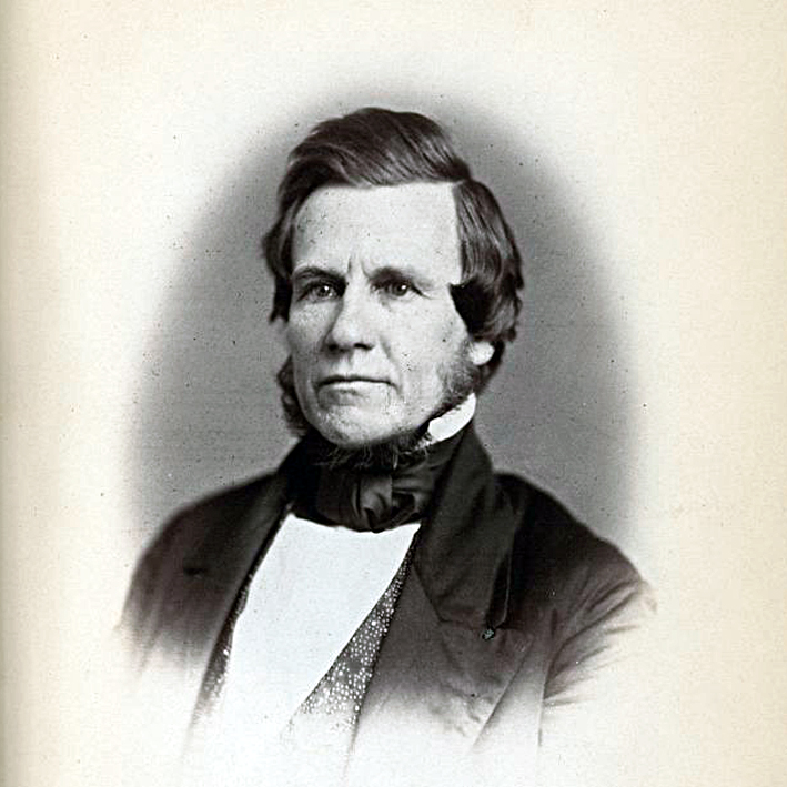 Samuel Anderson Purviance, US Representative from Pennsylvania